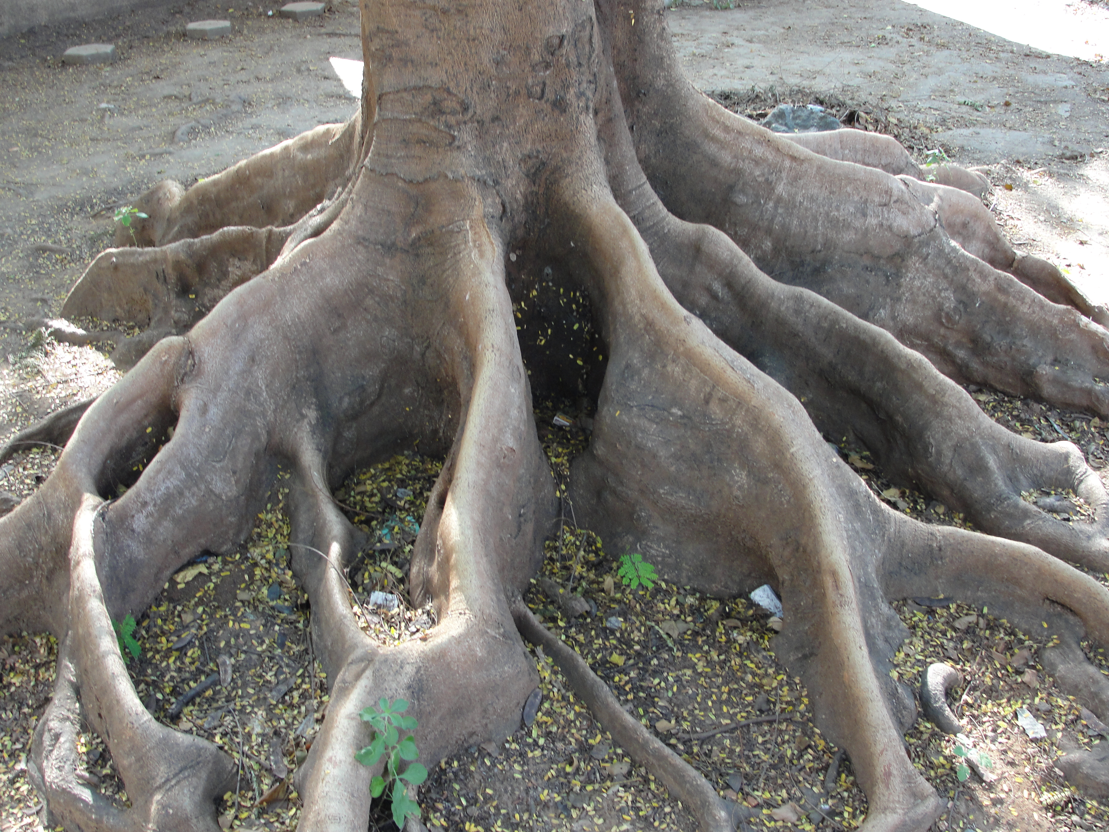 roots above the ground